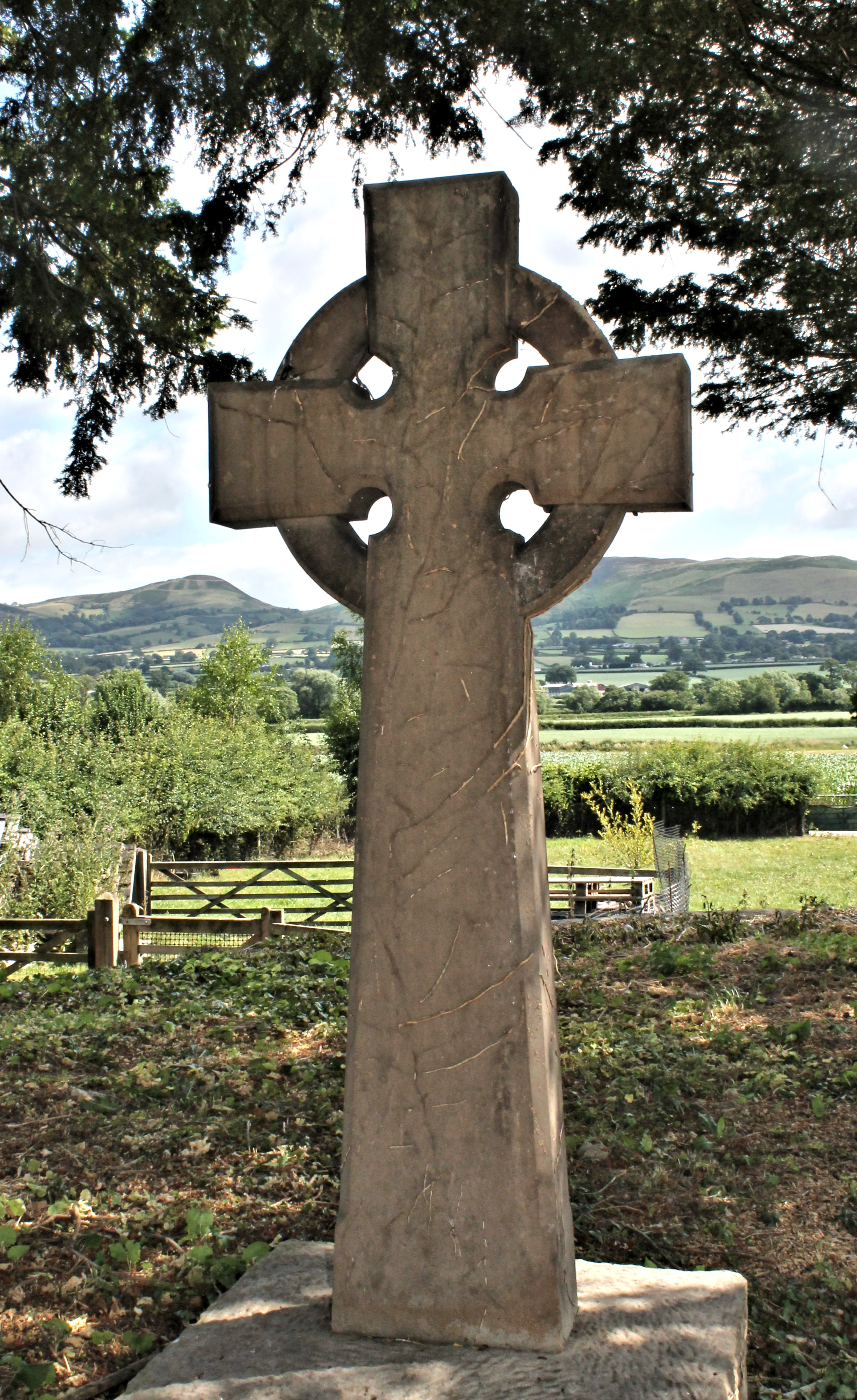 St. Saeran's church, Llanynys, Denbighshire, North Wales is a Grade 1 listed building. In 2015 a £4.5 million project came to an end, preserving this church. Celtic cross gravestone; in the distance: the Clwydian hills.